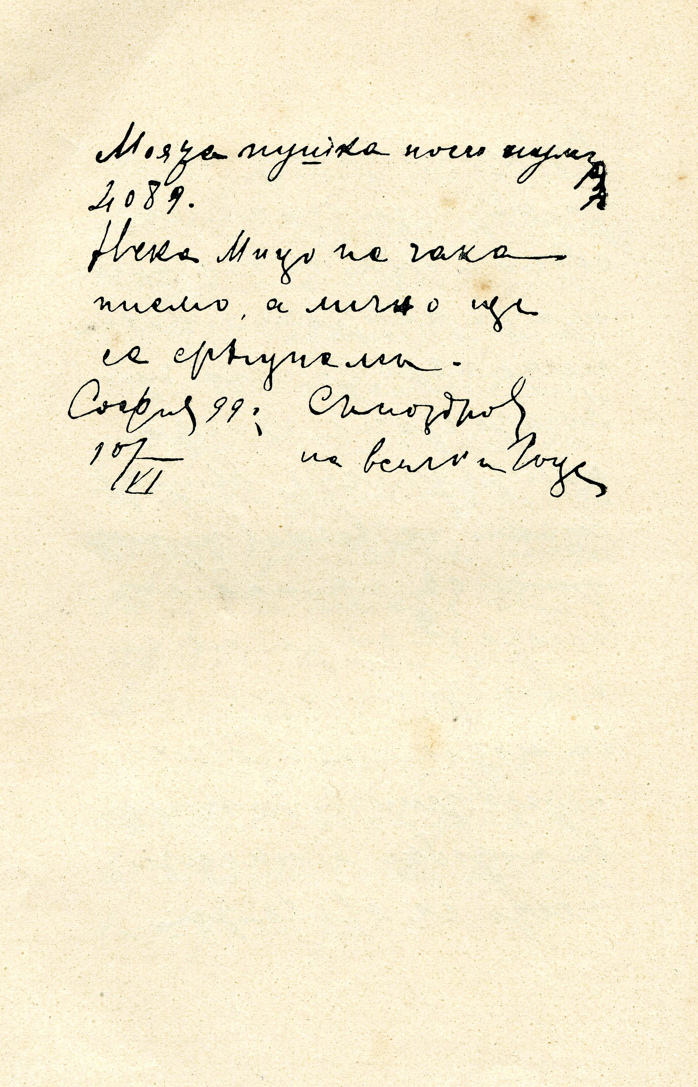 Facsimile of a letter from Gotse Delchev to Nikola Maleshevski. Page 4.